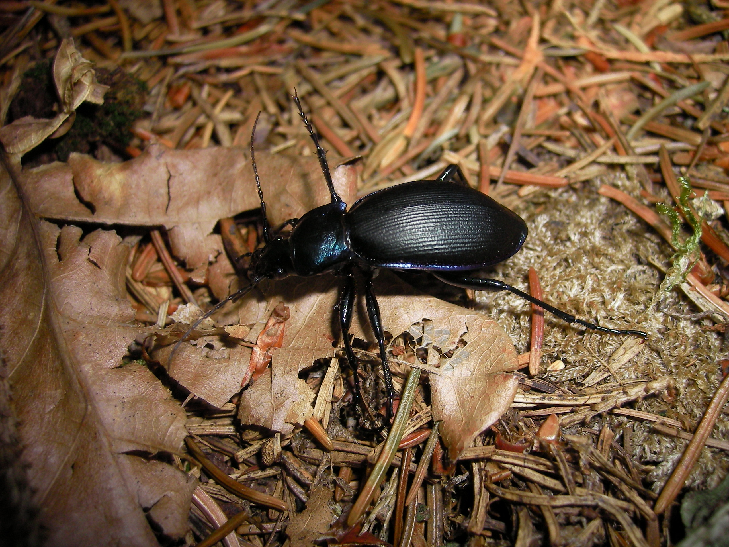 Carabus violaceus